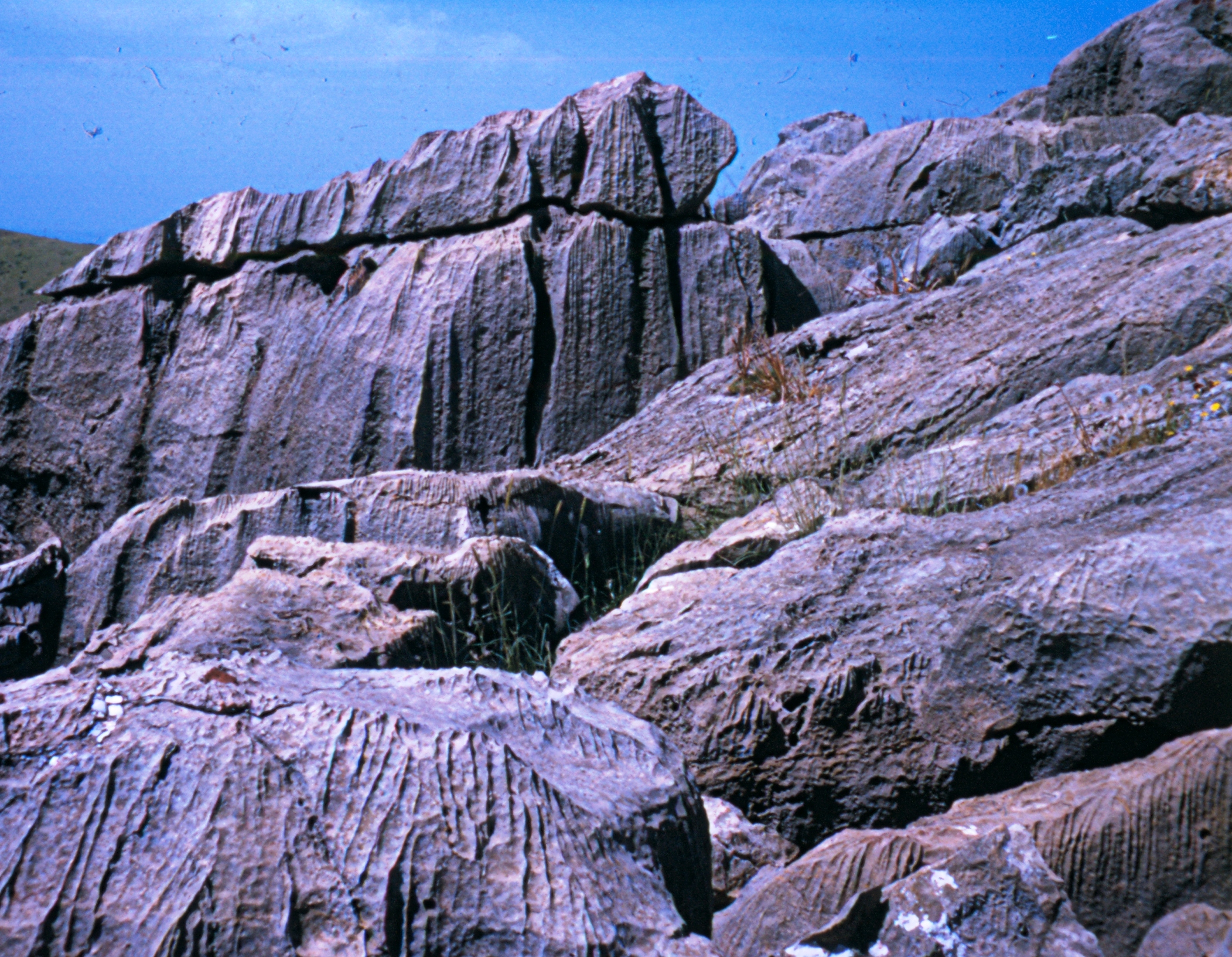 Jurassic___stones_from_Burj_el_Maleh_Israel